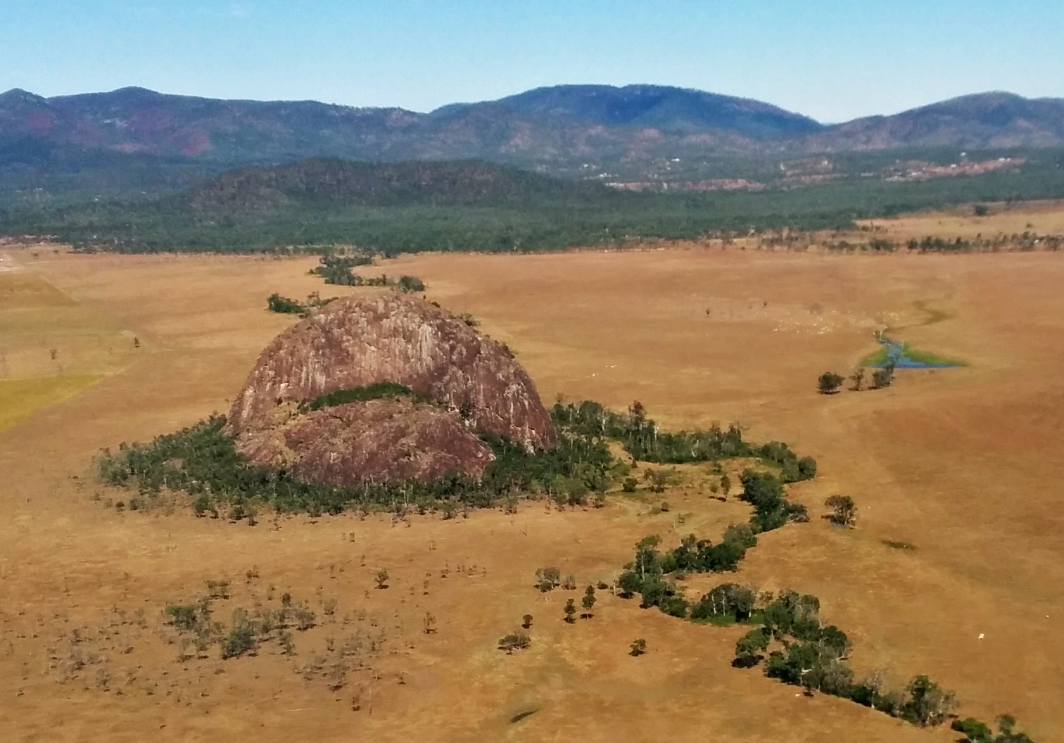 Looking west